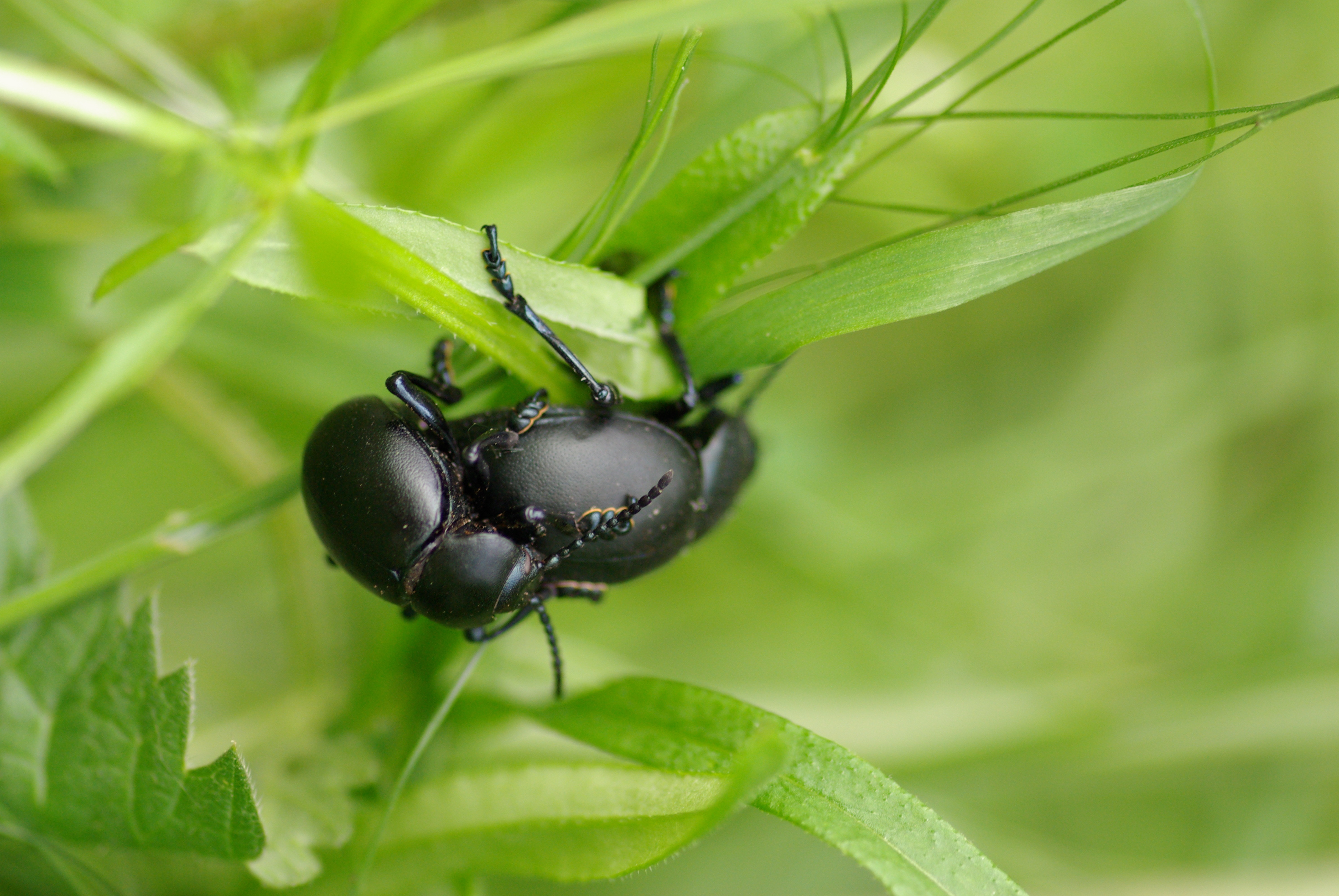 Timarcha tenebricosa are mating